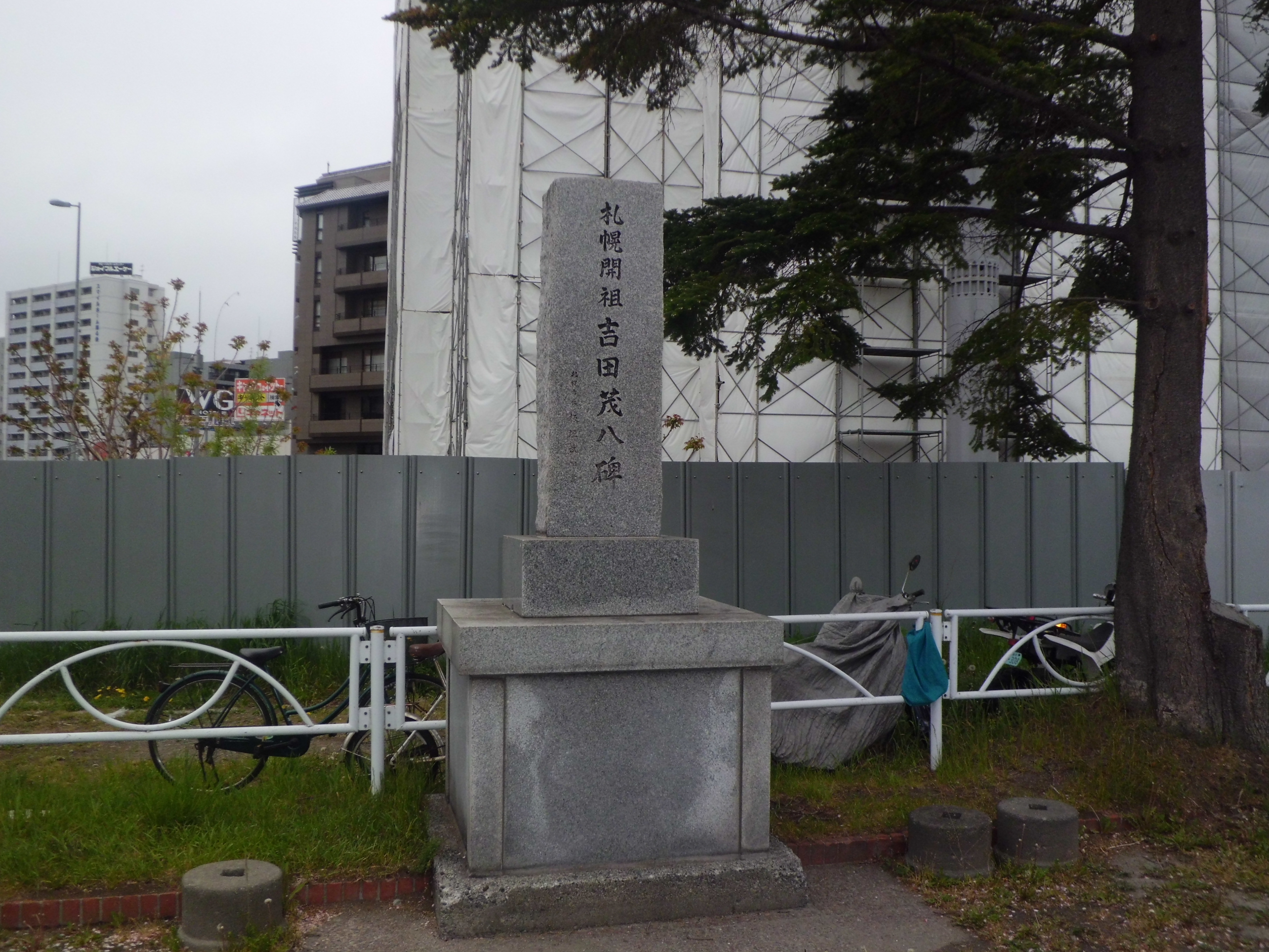 Monument of Mohachi Yoshida